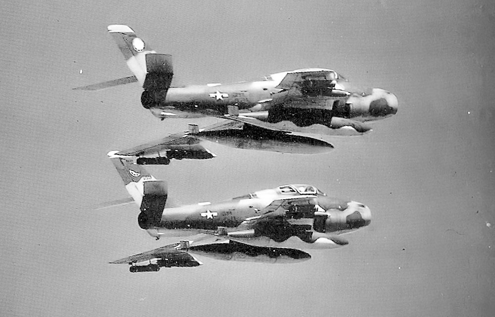 113th Tactical Fighter Squadron 2 F-84F Thunderstreaks about 1966 after having their Vietnam War camouflage livery applied.